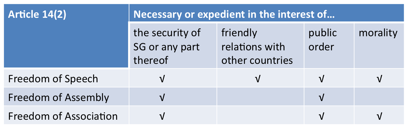 A table illustrating the grounds specified in Article 14(2) of the Constitution of Singapore on which the rights to freedom of speech and expression, assembly and association guaranteed by Article 14(1) can be restricted by Parliament if it is necessary or expedient to do so.